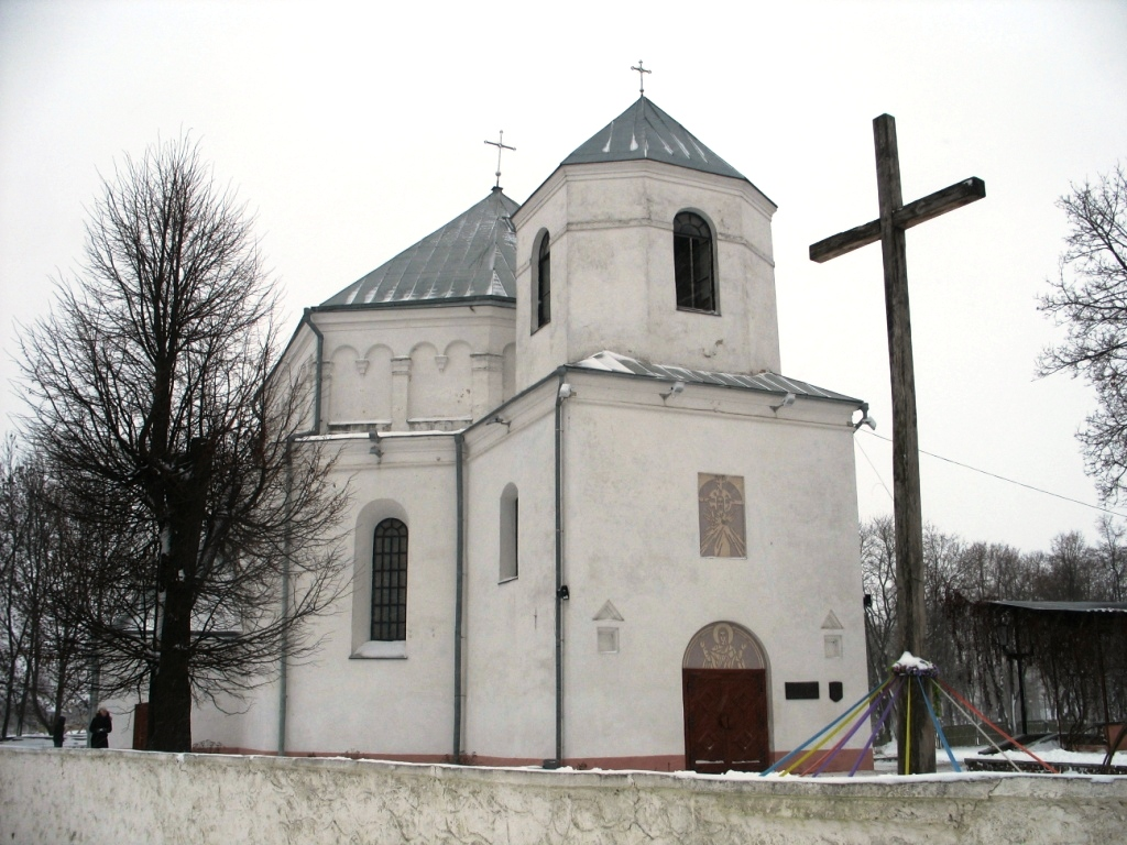 Catholic church of St. Michael (Smarhon)